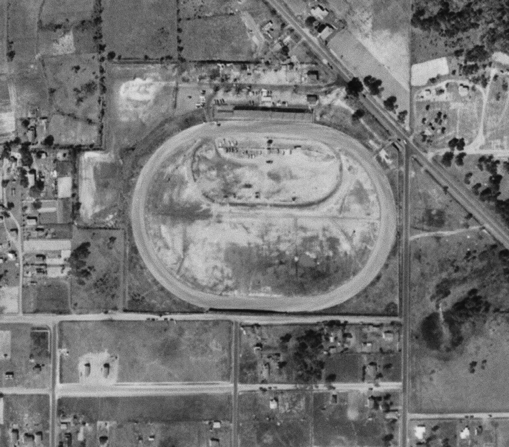 Aerial Image of Speedway Park taken by the USGS in 1952. The code for this image is 1SS0000020005 This image is in public domain.